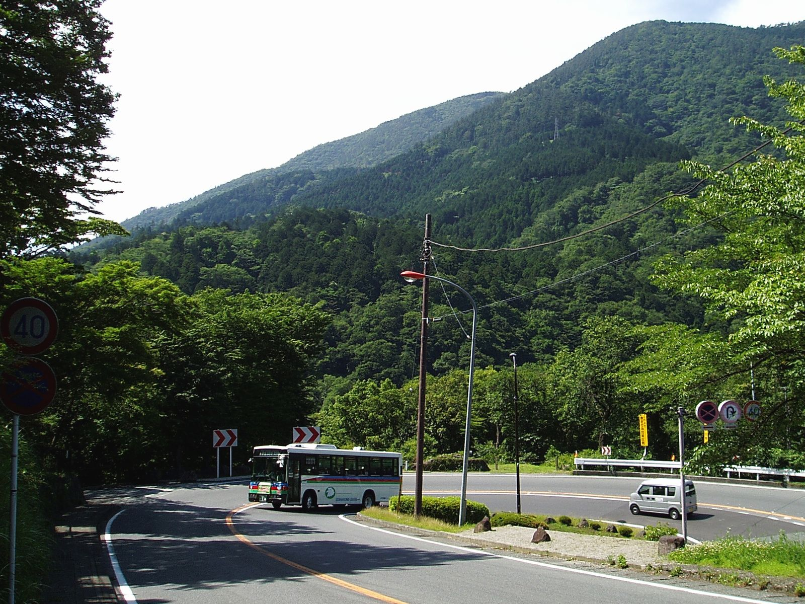 Izuhakone Bus that runs national road No.1 in Japan in the vicinity of Ohiradai.